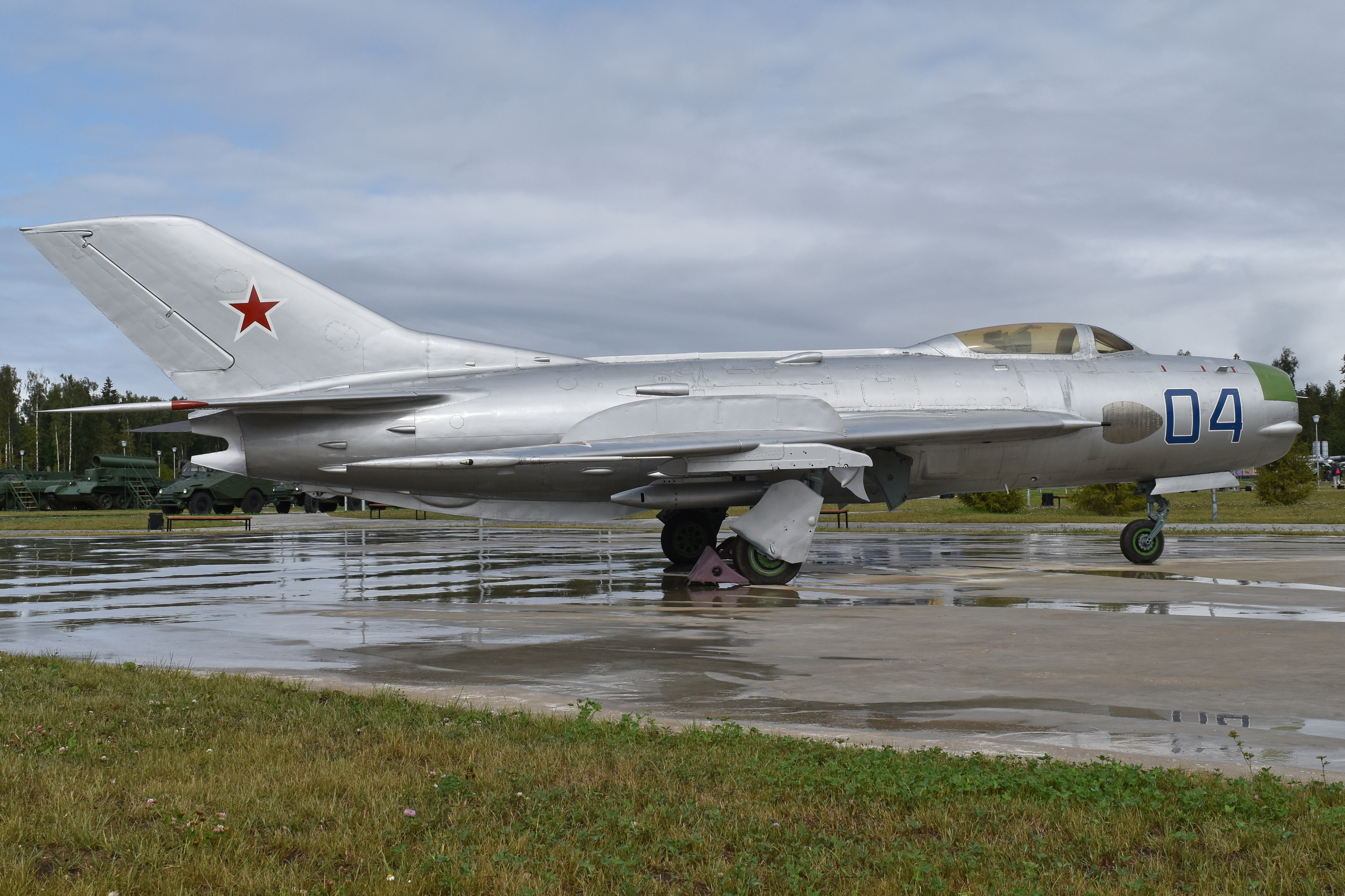 c/n 62210341. NATO codename:- Farmer-B Previously on display at the Savasleyka base museum. It was refurbished at Kubinka (121ARZ) in early 2016 and now on display in Area 1 of the Patriot Museum Complex. Park Patriot, Kubinka, Moscow Oblast, Russia. 25th August 2017